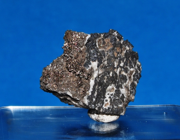 Ranciéite (Size: 2.2 cm x 3.3 cm x 2 cm) Locality: Siresol Mine, Vajo Siresol, Montecchio, Negrar, Verona Province, Veneto, Italy